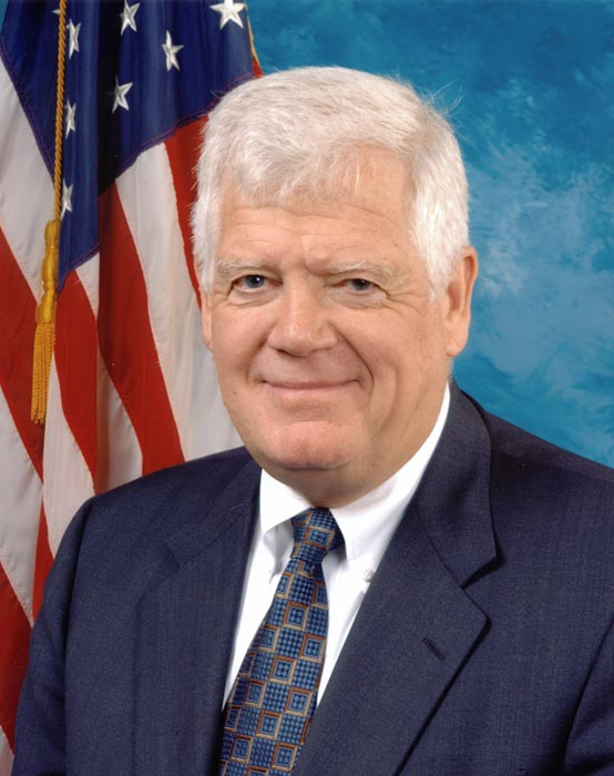 Jim McDermott, member of the United States House of Representatives (D-WA)